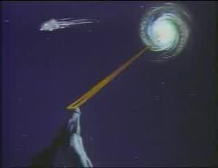 Screenshot of "The Magnetic Telescope" animated short.